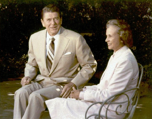 President Ronald Reagan and his Supreme Court Justice nominee Sandra Day O'Connor at the White House. July 15, 1981.